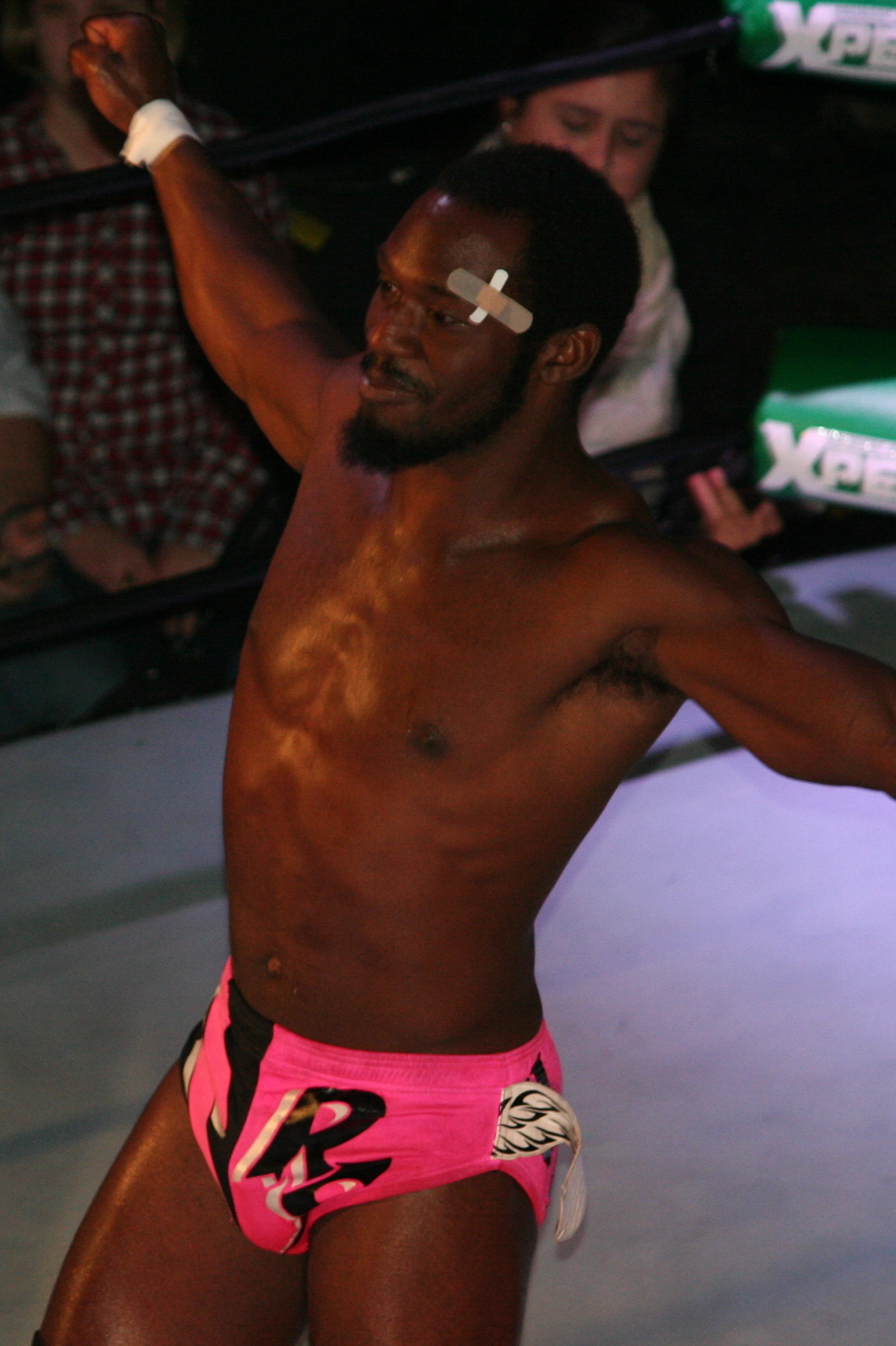 Rich Swann before a match against Davey Richards at PWX show in Winston Salem, North Carolina in January 2014. Cropped from original.